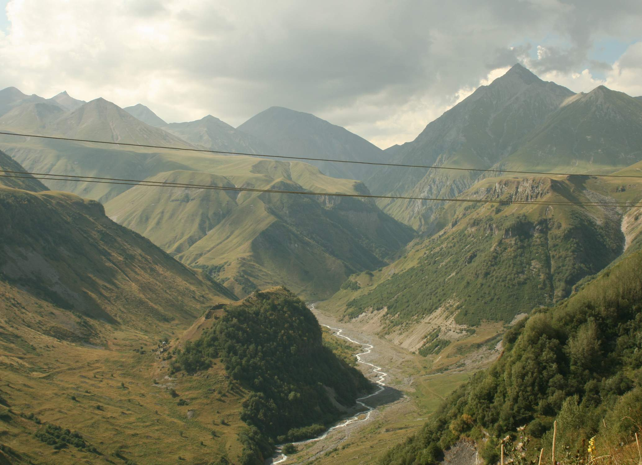 Tetri Aragvi river near Gudauri